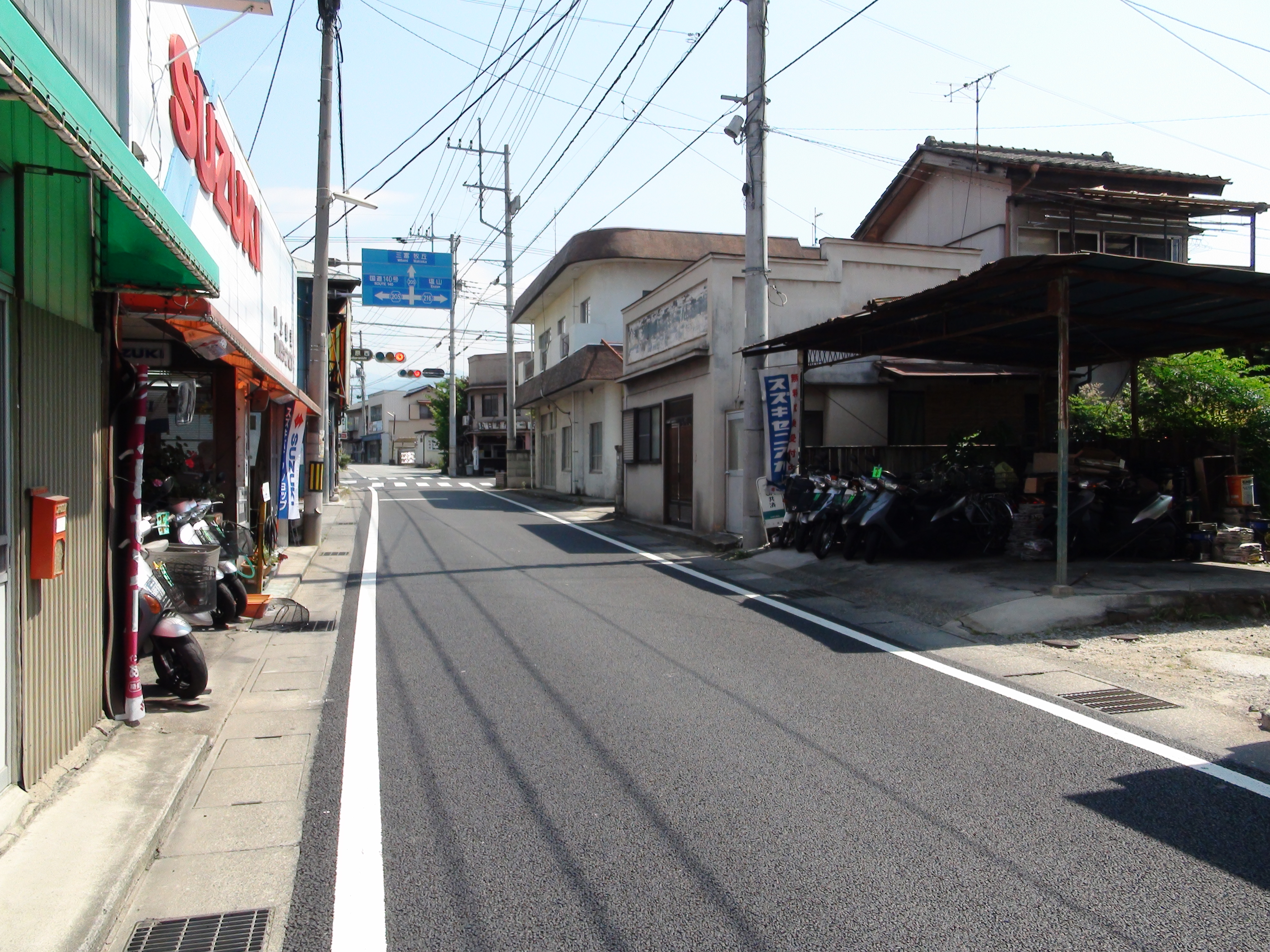 Kobara West intersection Yamanashi City